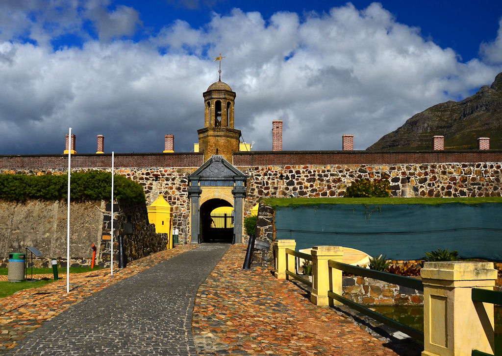 Built between 1666 and 1679 by the Dutch East India Company (VOC) as a maritime replenishment station, the Castle of Good Hope is the oldest surviving colonial building in South Africa.